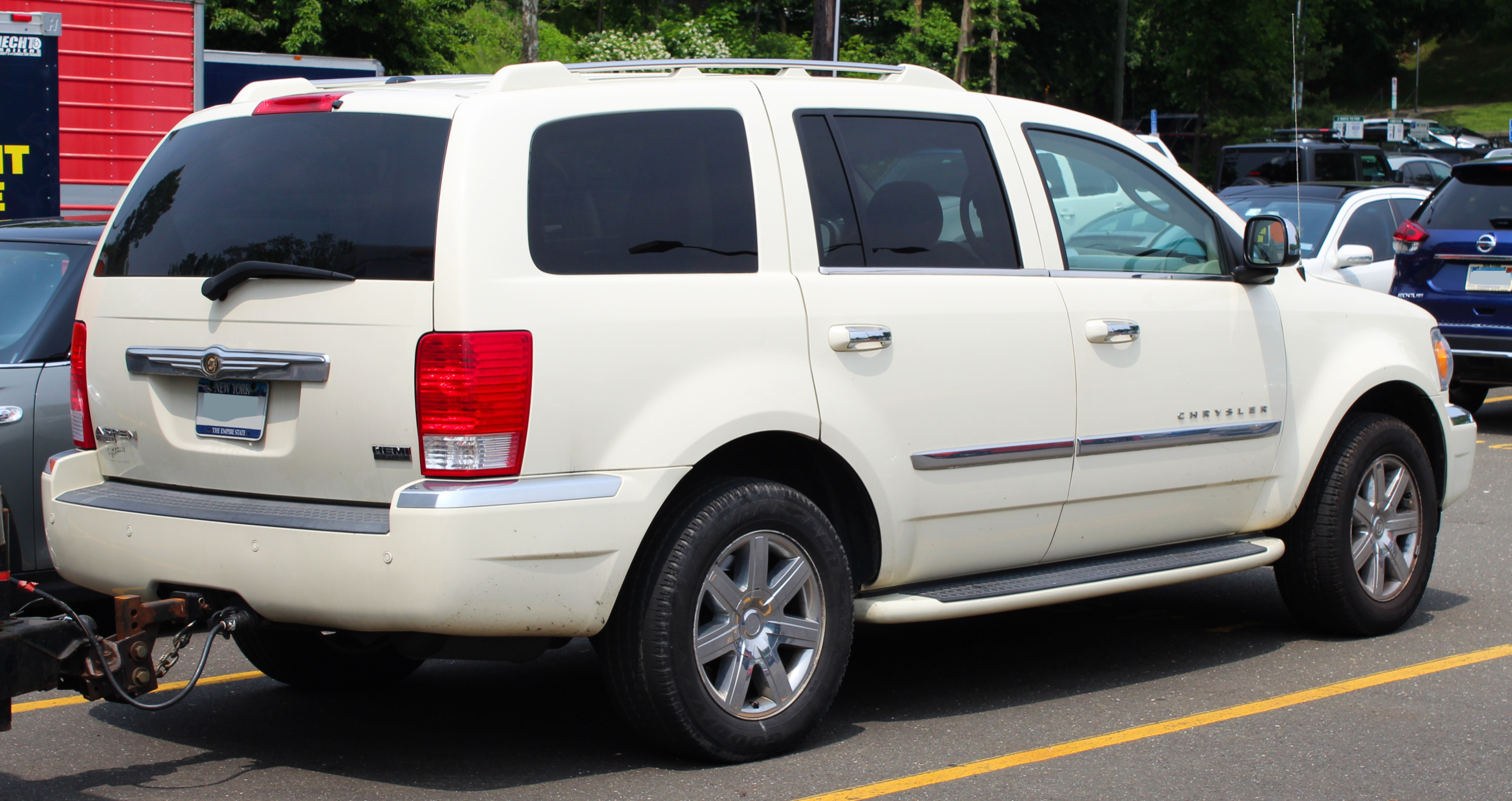 A 2008 Chrysler Aspen Limited photographed in Greenwich Concours d'Elégance Hagerty parking lot, Connecticut, USA